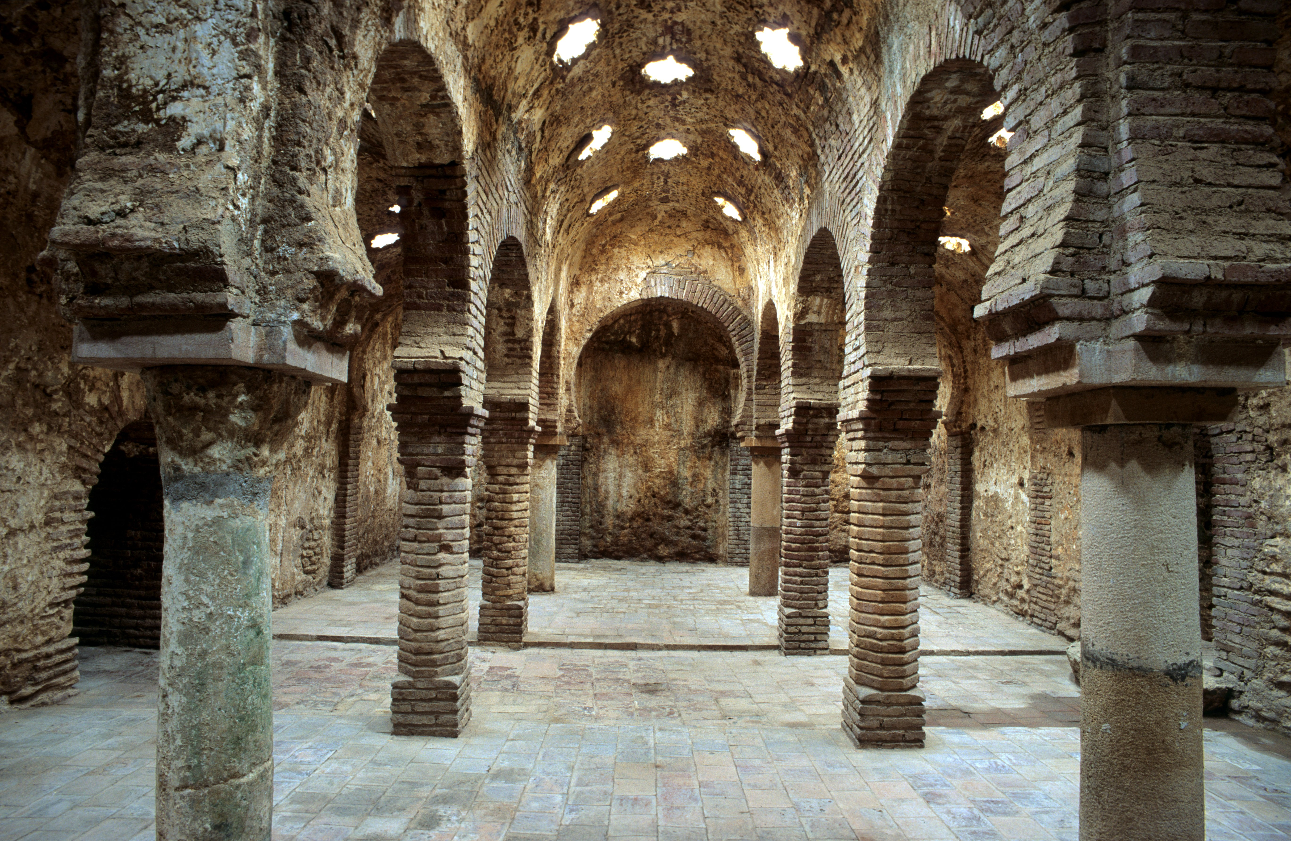 Moorish bath in Ronda, Spain